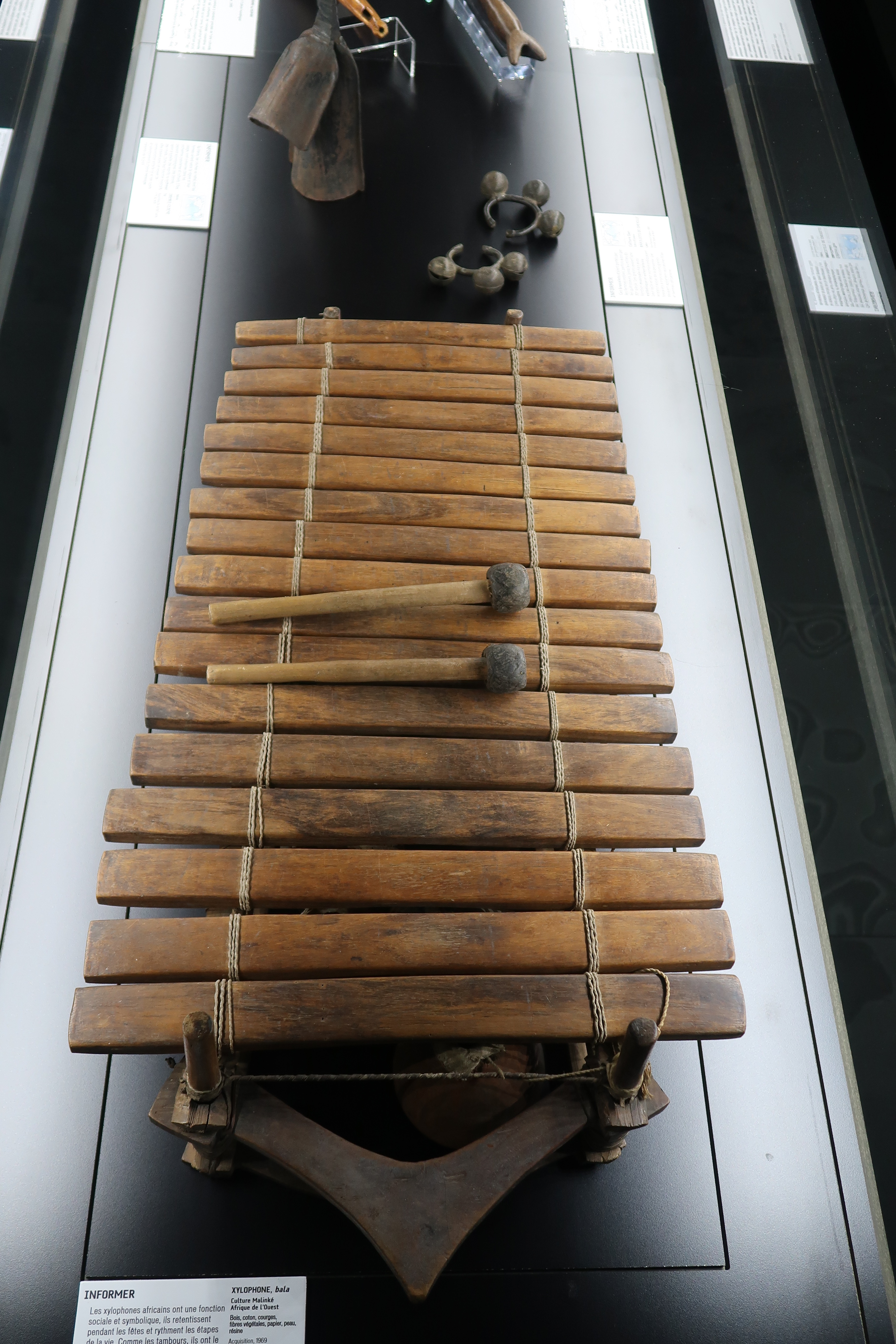 Xylophone, bálá . Malinke (or Mandinka) culture. West Africa. Wood, cotton, squash, vegetable fibers, paper, skin, resin. Muséum de Toulouse. France